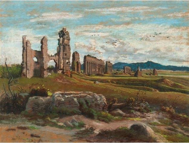 The Claudian Aqueduct